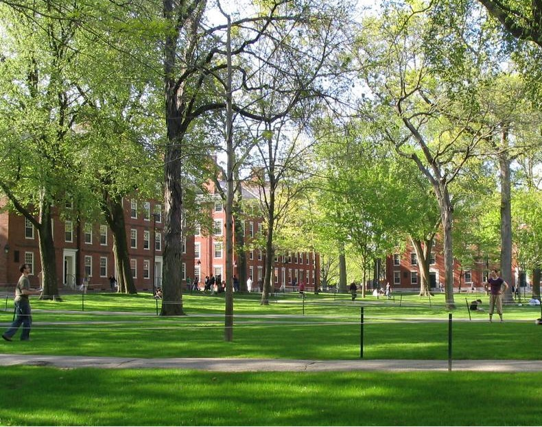 View of the northwestern corner of the Old Yard (see Harvard Yard), showing Hollis, Stoughton, and Holworthy Halls.